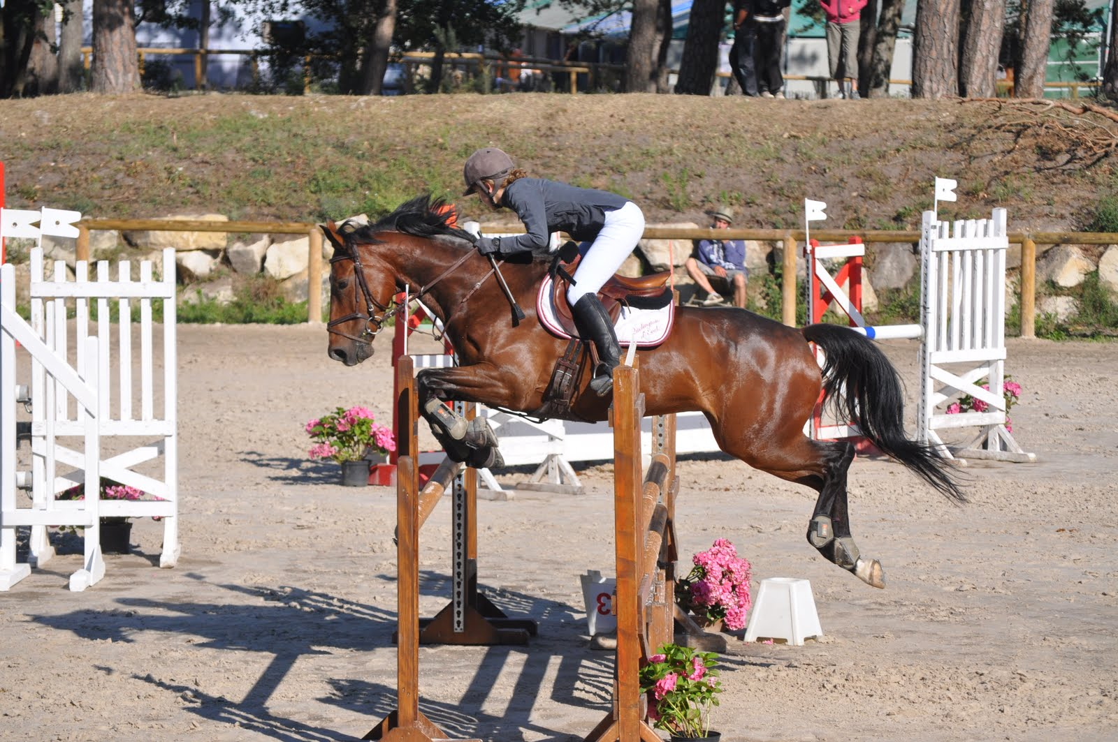 Quelington d'Evel, gelding french totter, during a show jumping at Fontainebleau, France